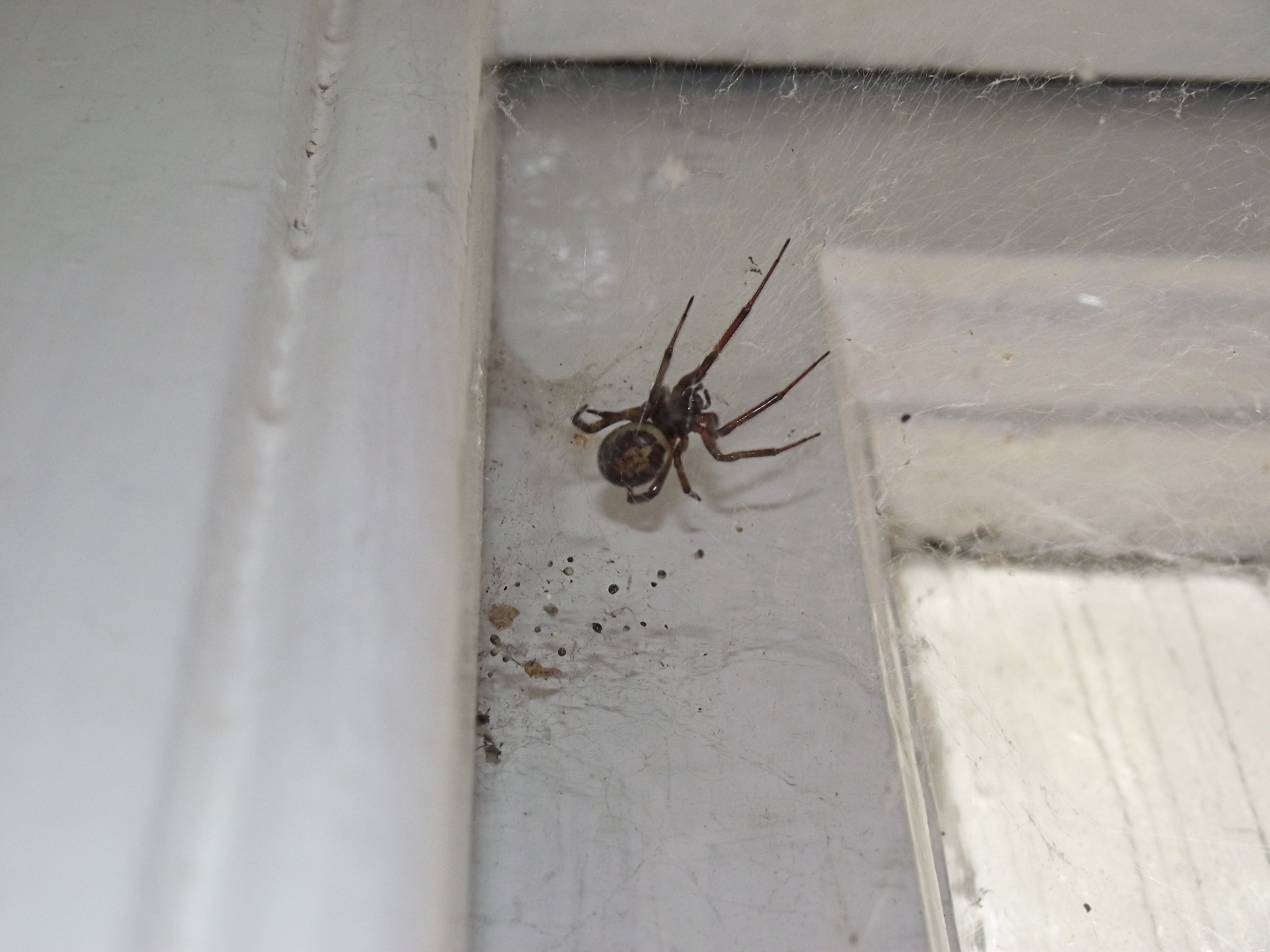 Steatoda nobilis and web